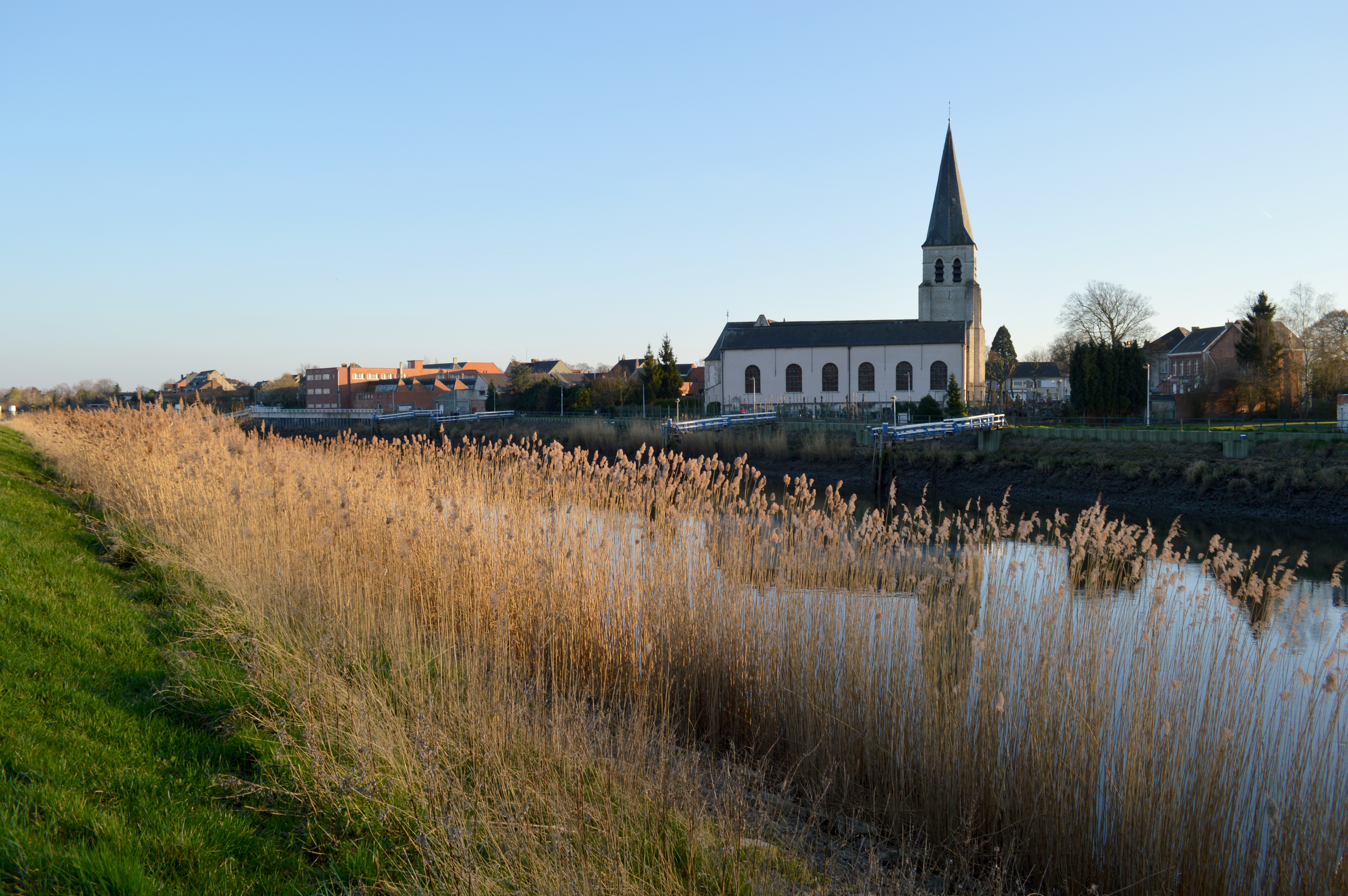 Schellebelle's main church - the Sint-Jan Onthoofdingkerk - as seen from across the Scheldt on a very summer-like March evening in 2014.